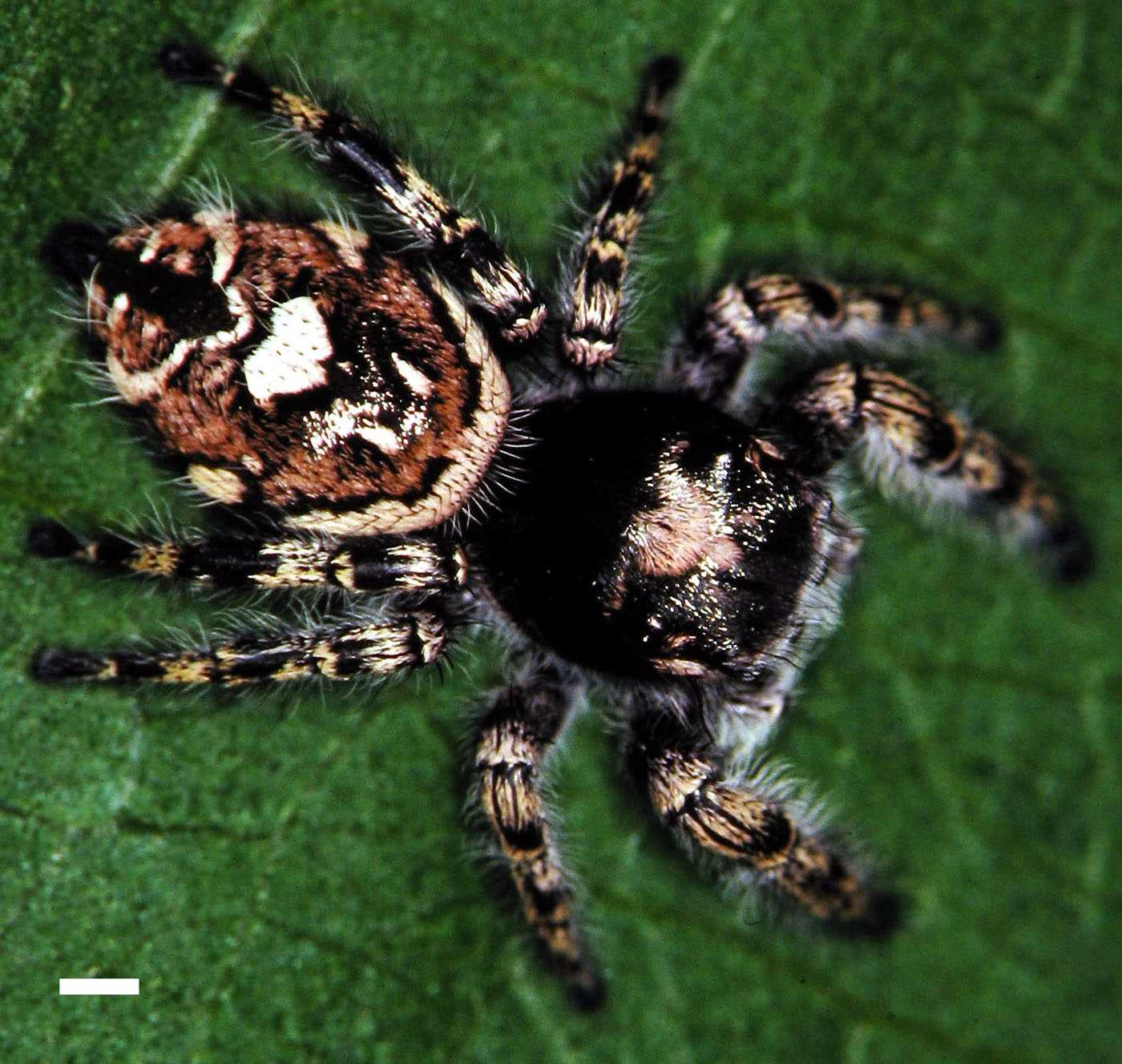 Female Phidippus richmani jumping spider from Ocala National Forest, Florida, USA